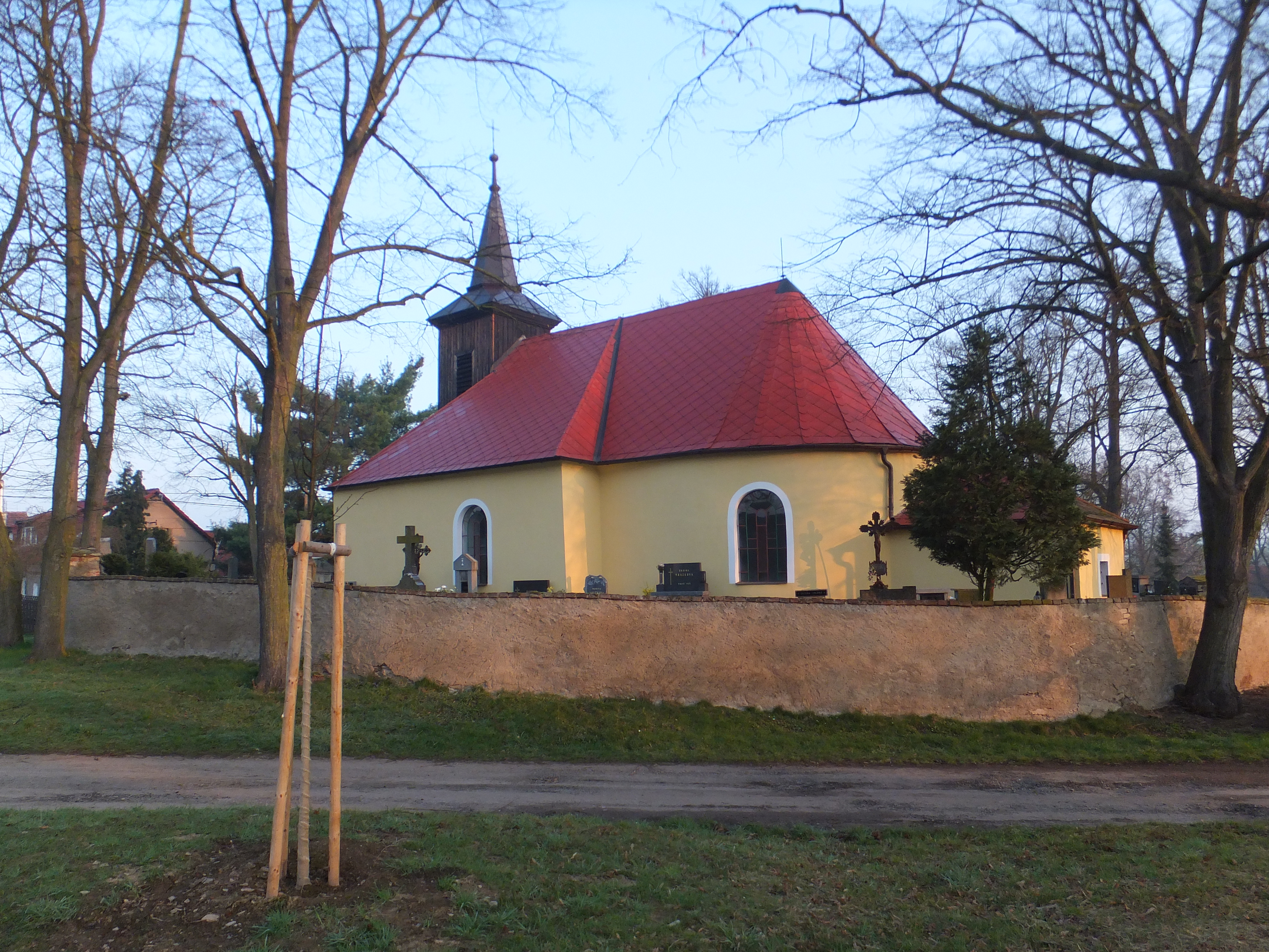 Velká Hraštice - the Saint Sigismund church